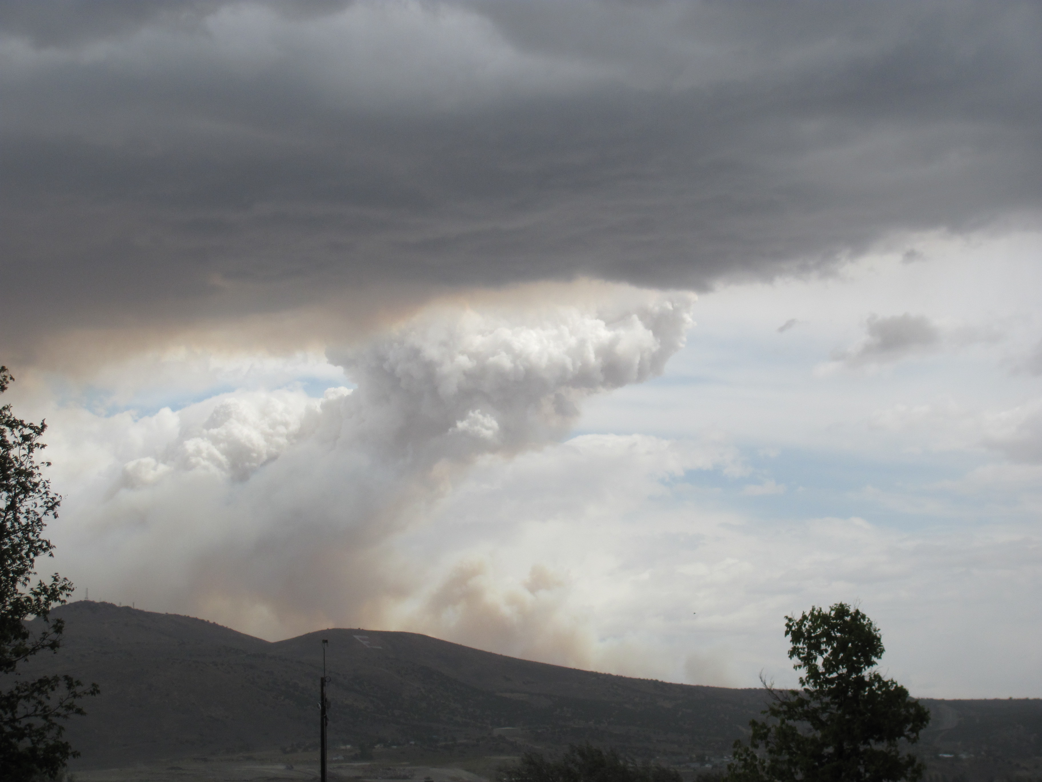 Pyrocumulus From The Chimney Fire.